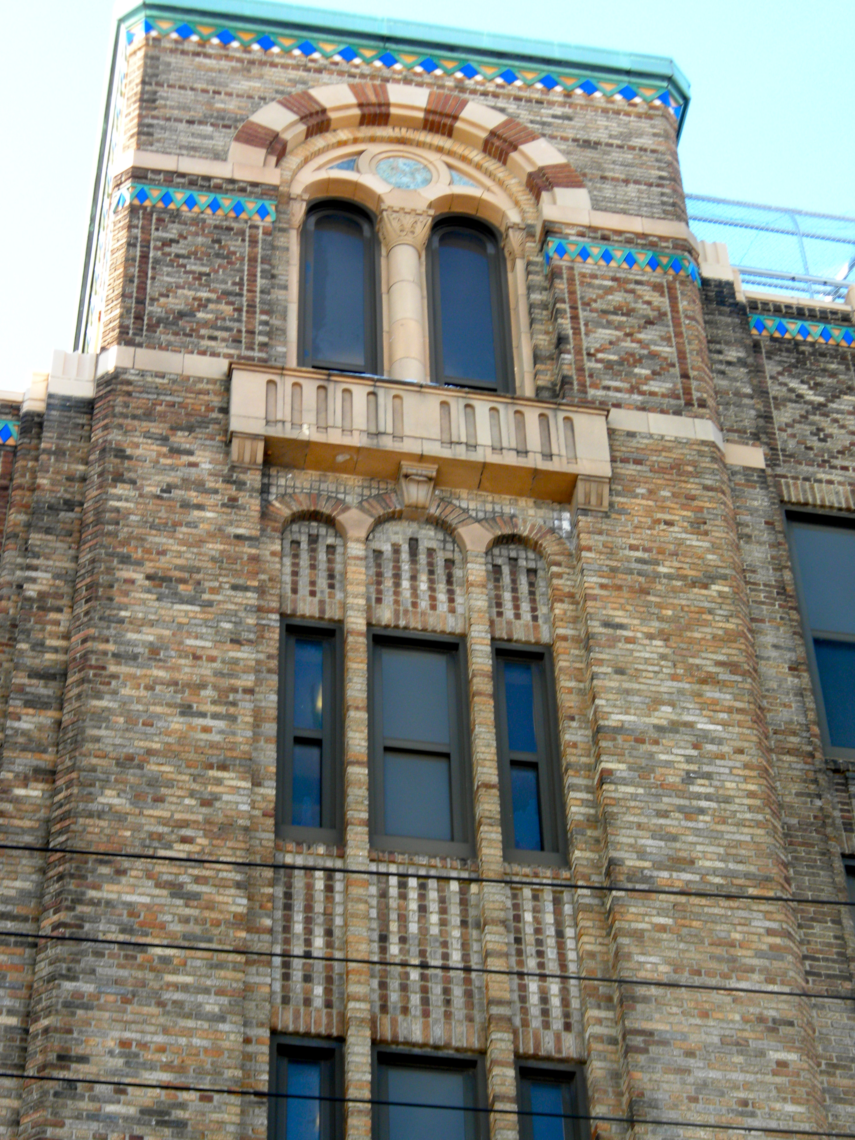 Bartlett School, on NRHP since December 4, 1986. 1100 Catharine Street in the Hawthorne neighborhood of Philadelphia